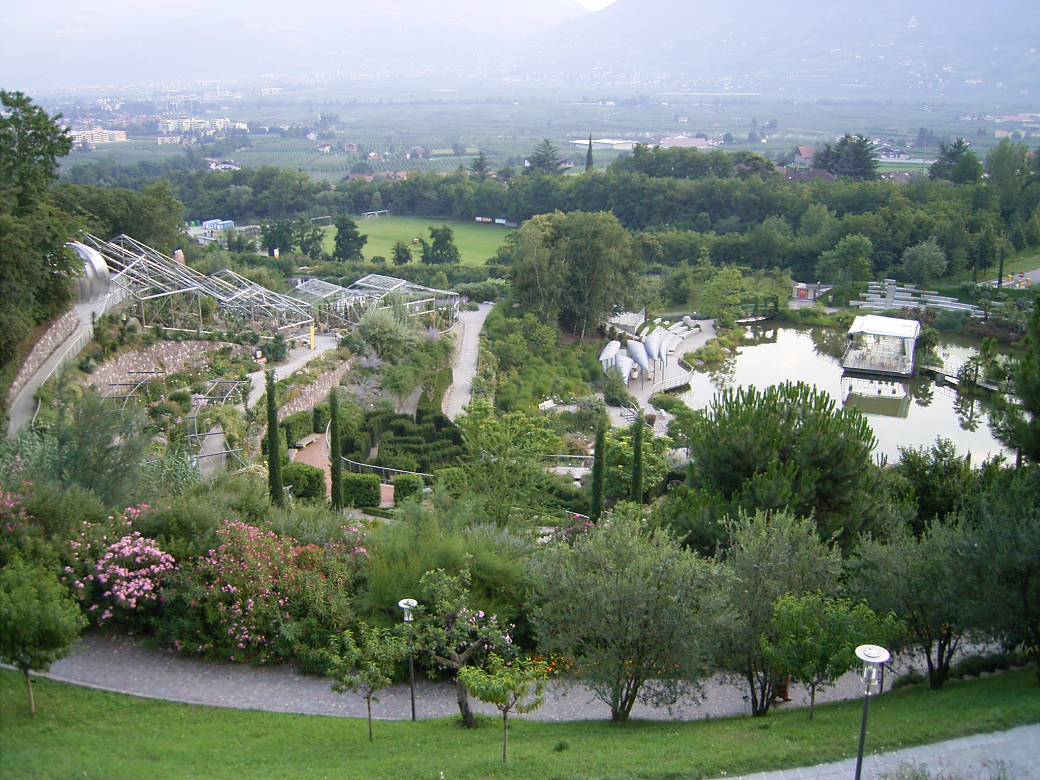 Photo of botanical garden Meran in South Tyrol.